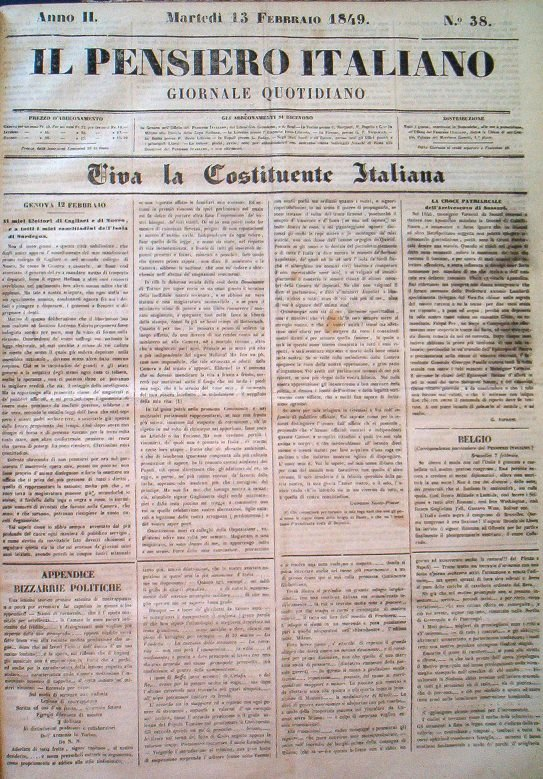 first page of risorgimental newspaper Il Pensiero 1849